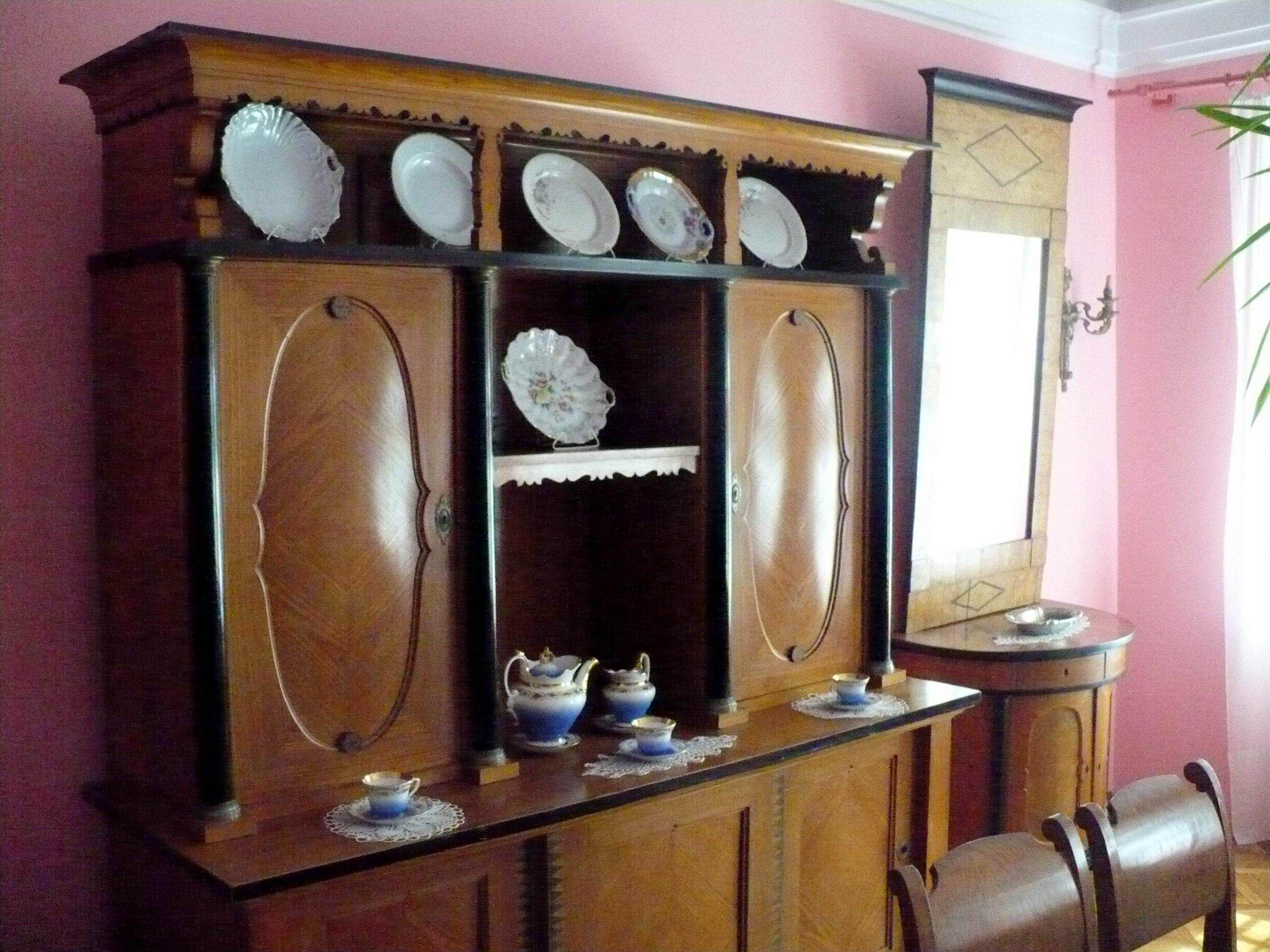 Sideboard in Kołaczkowo, Wladyslaw Reymont's residence from 1920 to 1925